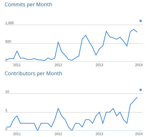 Slide from Daniel Martí's presentation at FOSDEM 2014 showing an upward trend in the rate of F-Droid development.